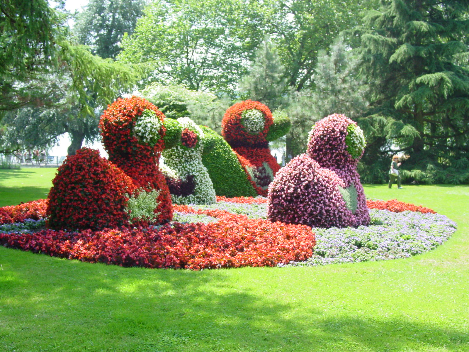 Mainau. Author: Stako July 2003